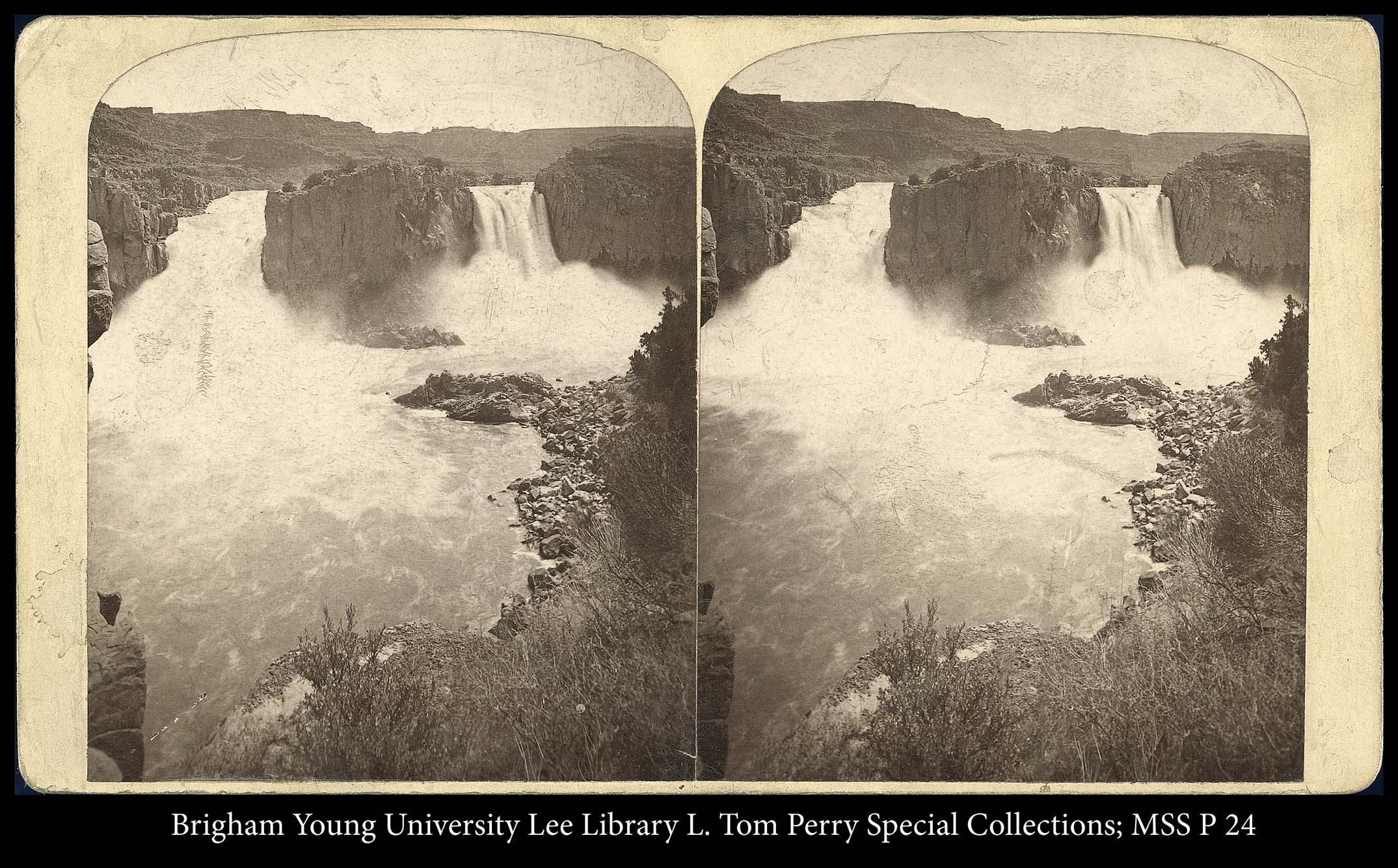 Twin Falls and a river below. Written on the back- Twin Falls Snake River, Idaho. Probably photographed by Charles R. Savage.